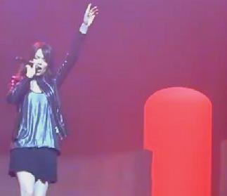 Miranda Cosgrove Concert Tour. Photo taken on 29-01-2011.